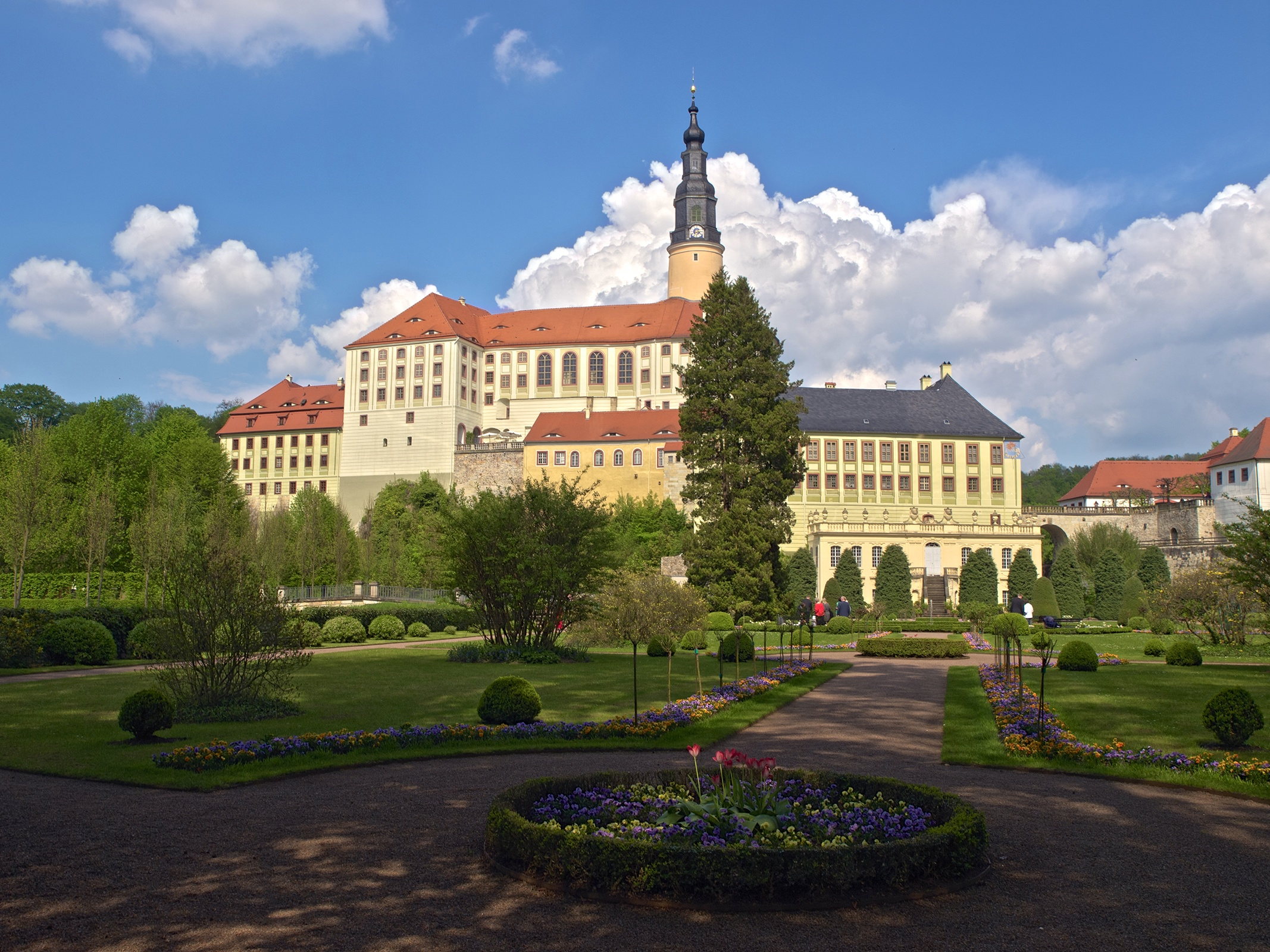 View on Castle Weesenstein, Saxony, Germany